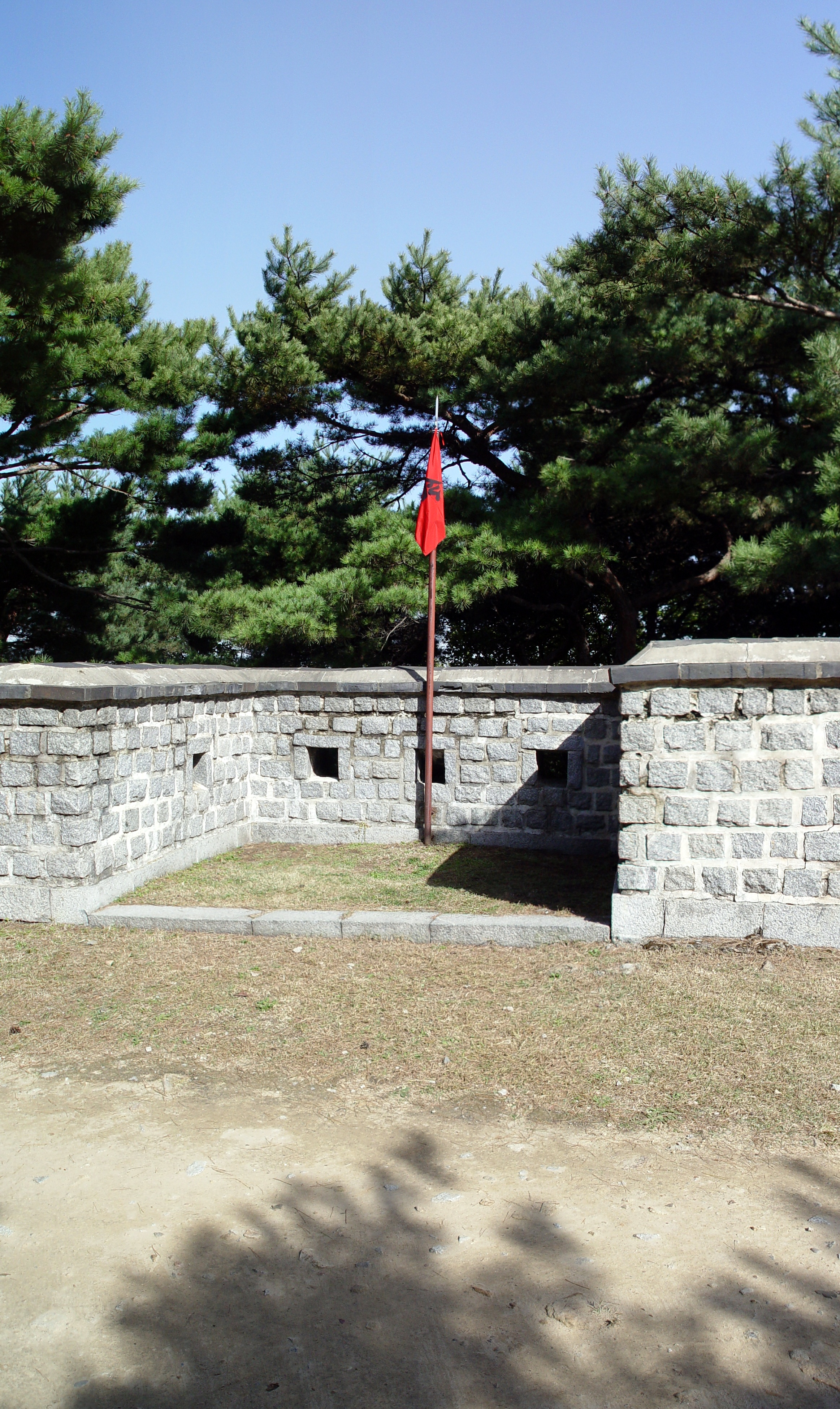 Yongdodongchi - a turret on Hwaseong Fortress, Suwon, South Korea